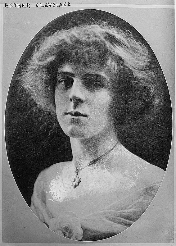 Esther Cleveland (1893–1980) - the daughter of American President Grover Cleveland.